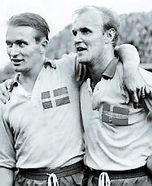 Swedish footballers Hamrin and Skoglund.